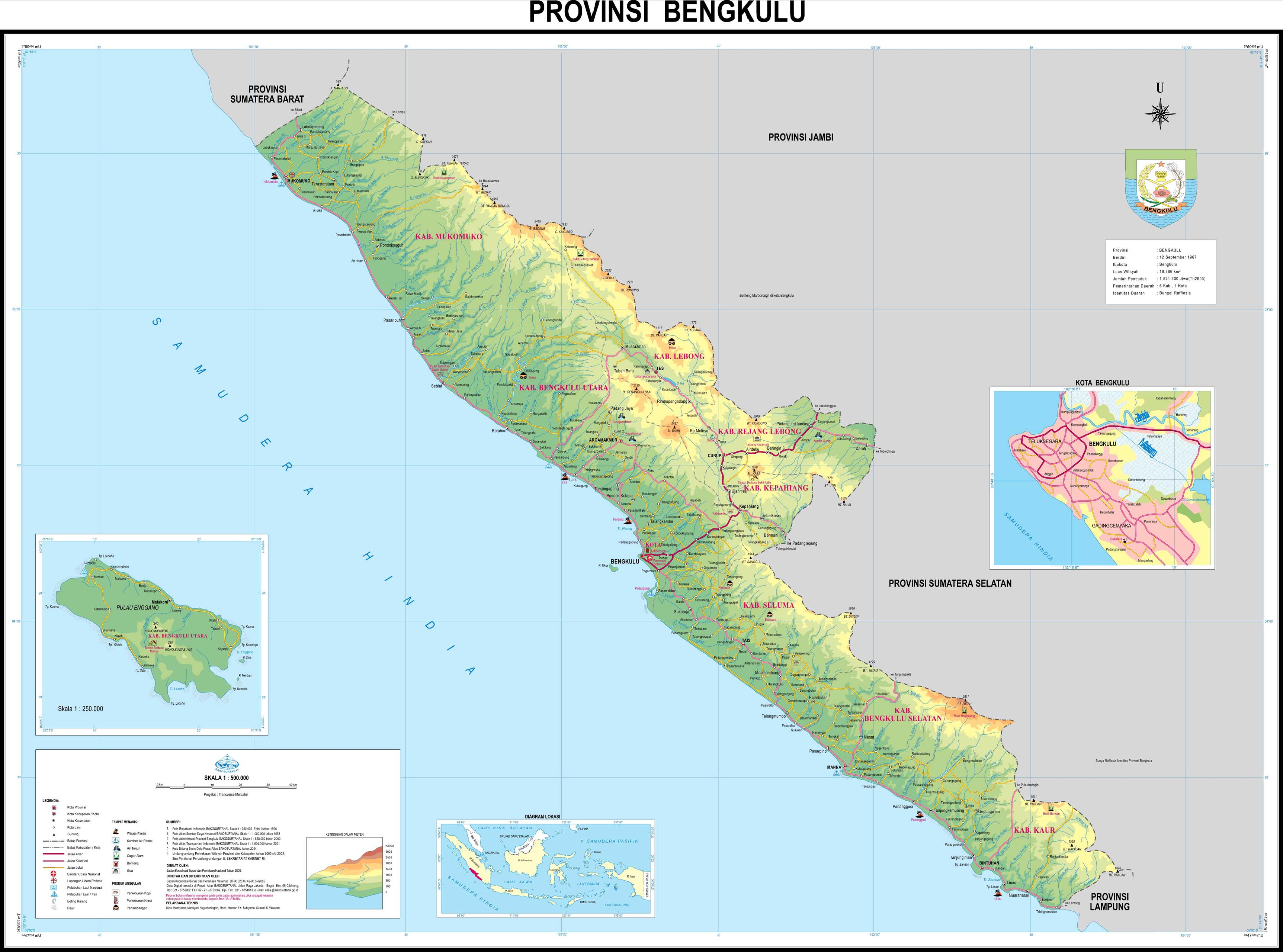 Maps of Bengkulu province, including Enggano in the map as a part of North Bengkulu regency.